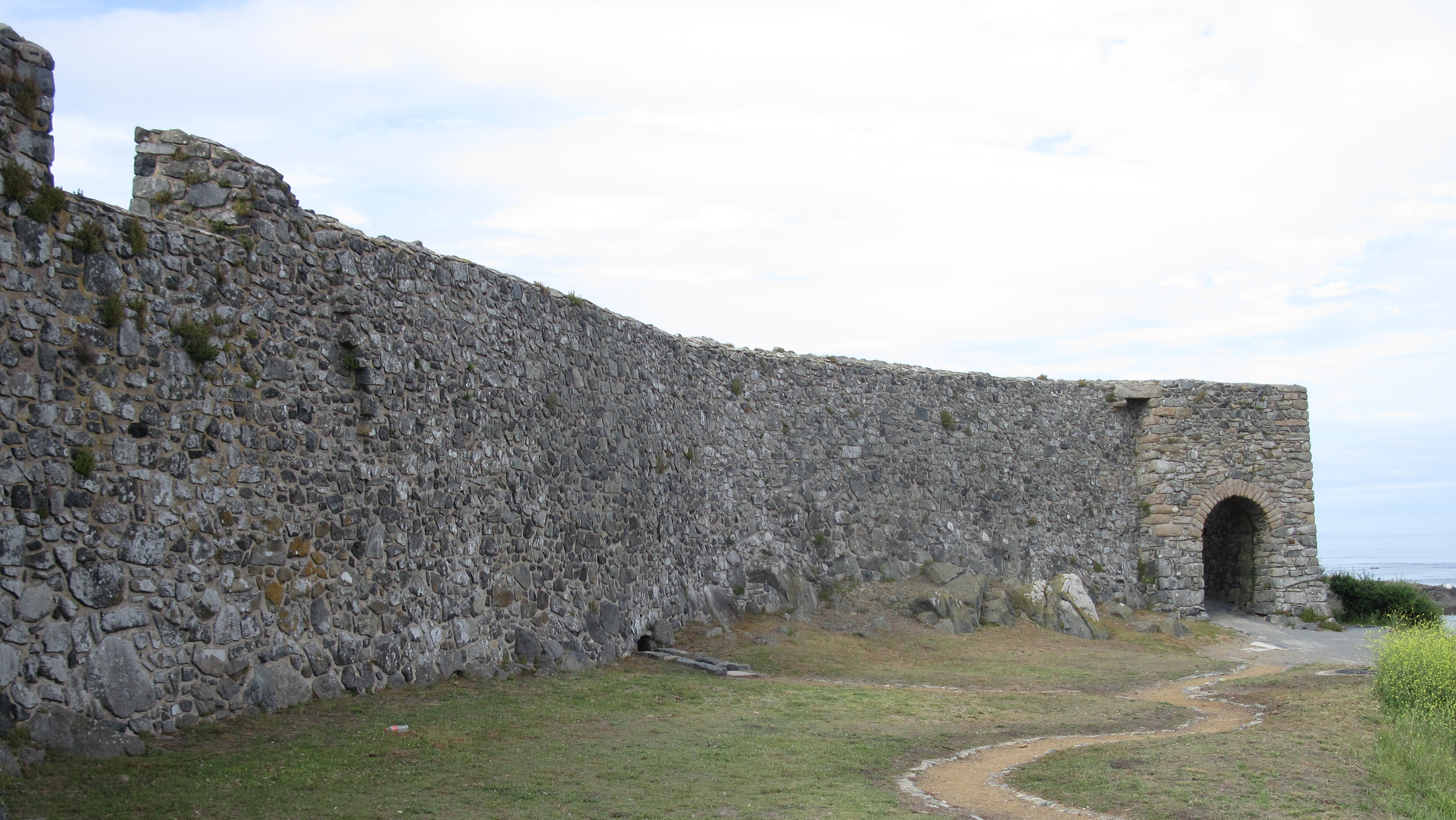 Guernsey, 2 July 2010: Vale Castle